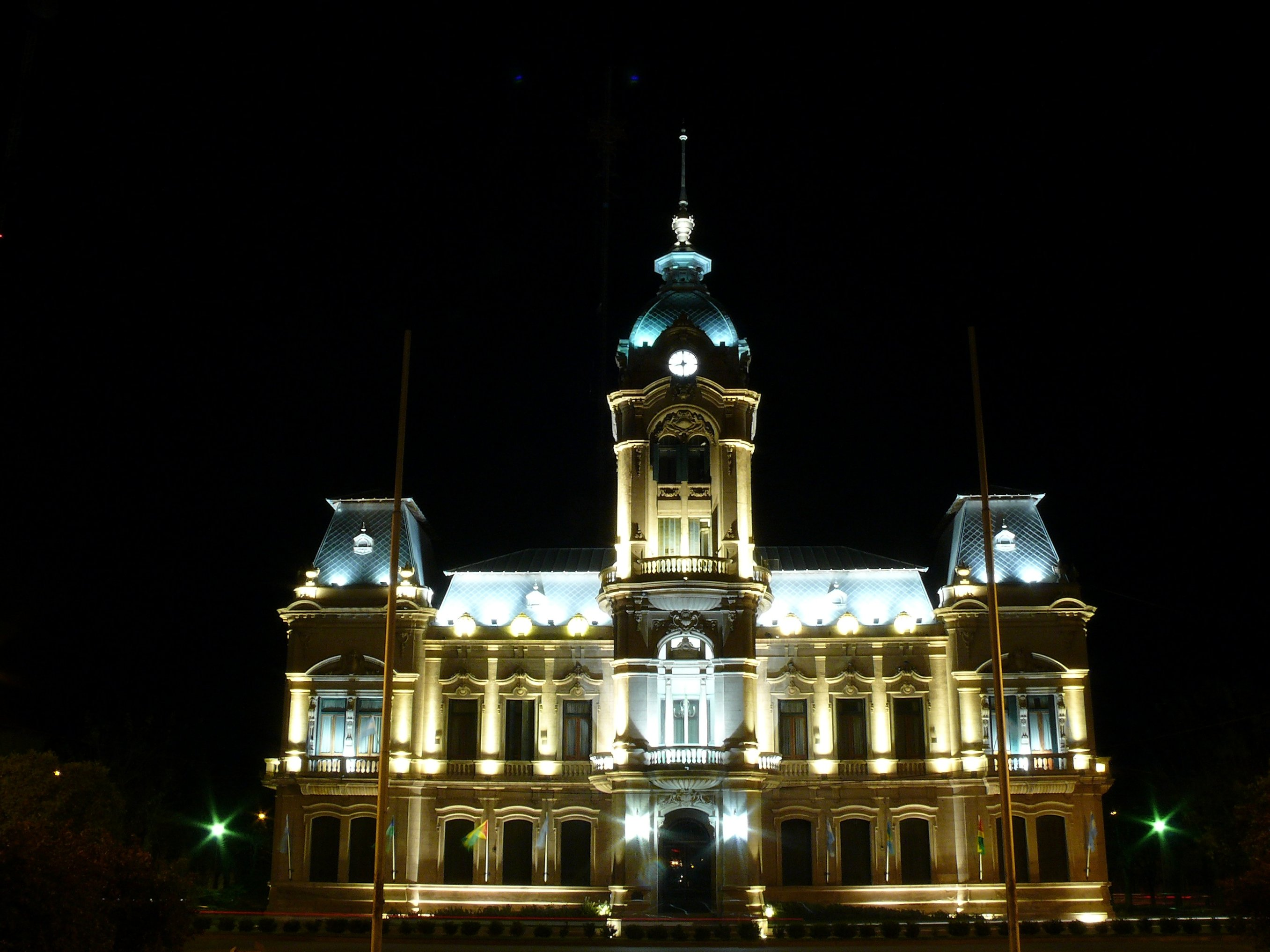 City Hall, Tres Arroyos, Buenos Aires Province, Argentina.